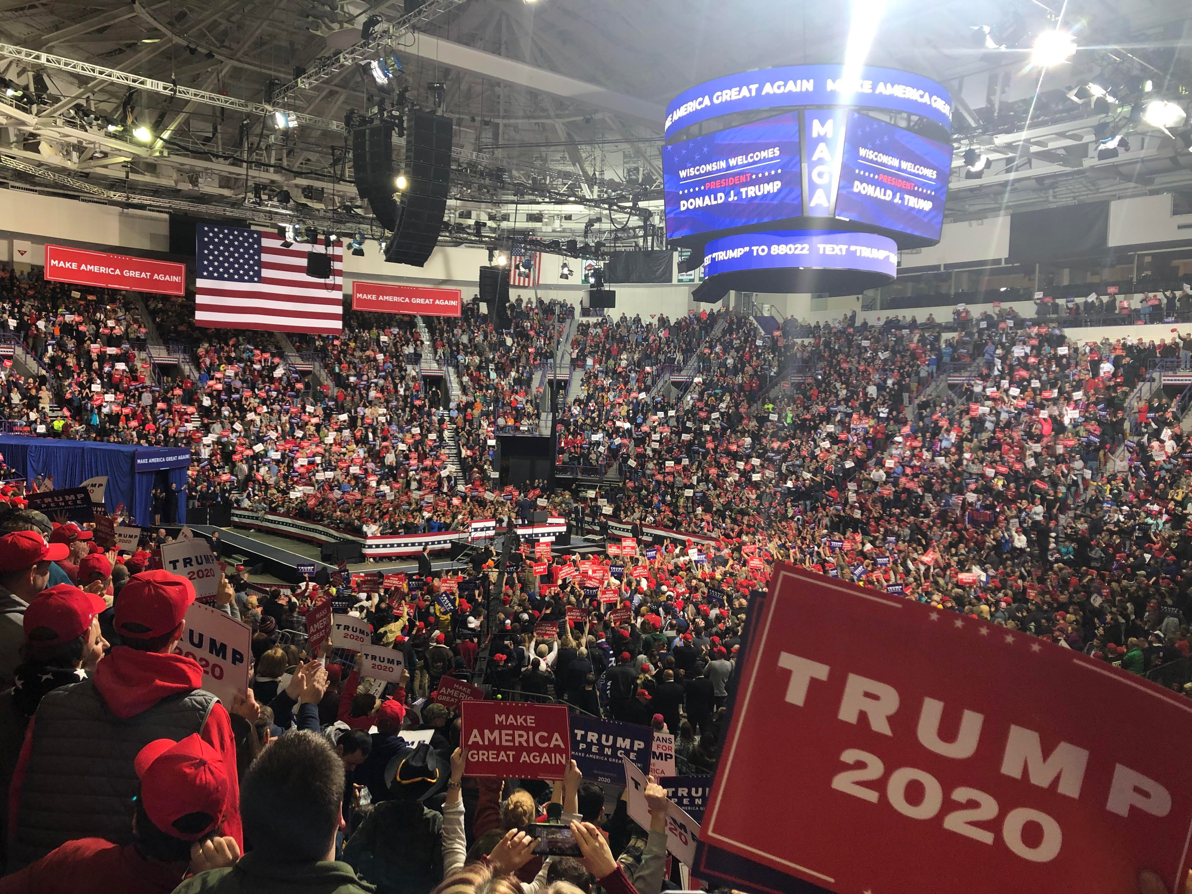 Resch Center during President Trump's rally on the night of the White House Correspondents Dinner.